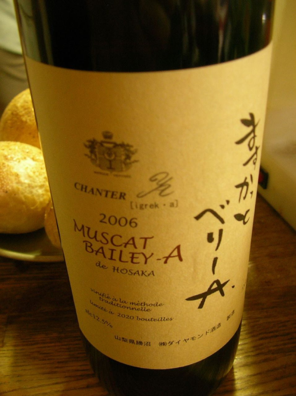 Japanese wine. Grape: Muscat Bailey-A